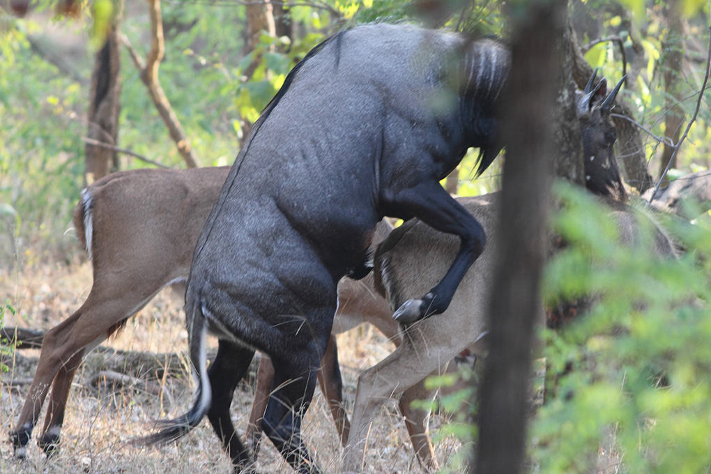 Nilgai mating at Bandhavgarh National Park. This event has been documented on 19th January 2013 in the afternoon around 4PM.